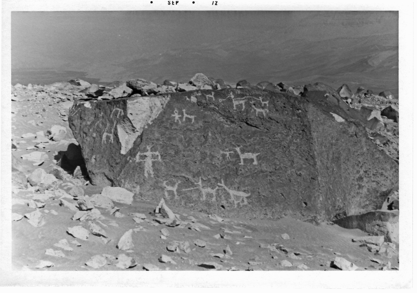 These petroglyphs are at the site of Toro Muerto in southern Peru. The site is in a desert in the Majes valley about 170 km from Arequipa. Some archaeologists believe the carvings were made by the Wari culture over 1,000 years ago, and perhaps added to by subsequent societies. I took these photos when I visited Toro Muerto in 1972. I understand the site has suffered destruction since then, and is threatened by development today. A few descriptions I have read recently say the carvings are widely scattered and are few and far between. This differs from my recollection of 35 years ago. It seemed to me there were petroglyphs everwhere you looked. hese petroglyphs are at the site of Toro Muerto in southern Peru. The site is in a desert in the Majes valley about 170 km from Arequipa. Some archaeologists believe the carvings were made by the Wari culture over 1,000 years ago, and perhaps added to by subsequent societies. I took these photos when I visited Toro Muerto in 1972. I understand the site has suffered destruction since then, and is threatened by development today. A few descriptions I have read recently say the carvings are widely scattered and are few and far between. This differs from my recollection of 35 years ago. It seemed to me there were petroglyphs everwhere you looked.